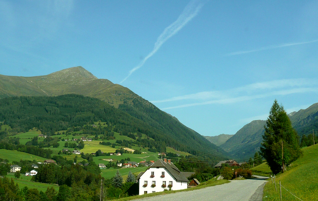 Between Oberwölz and Eselsberger Graben